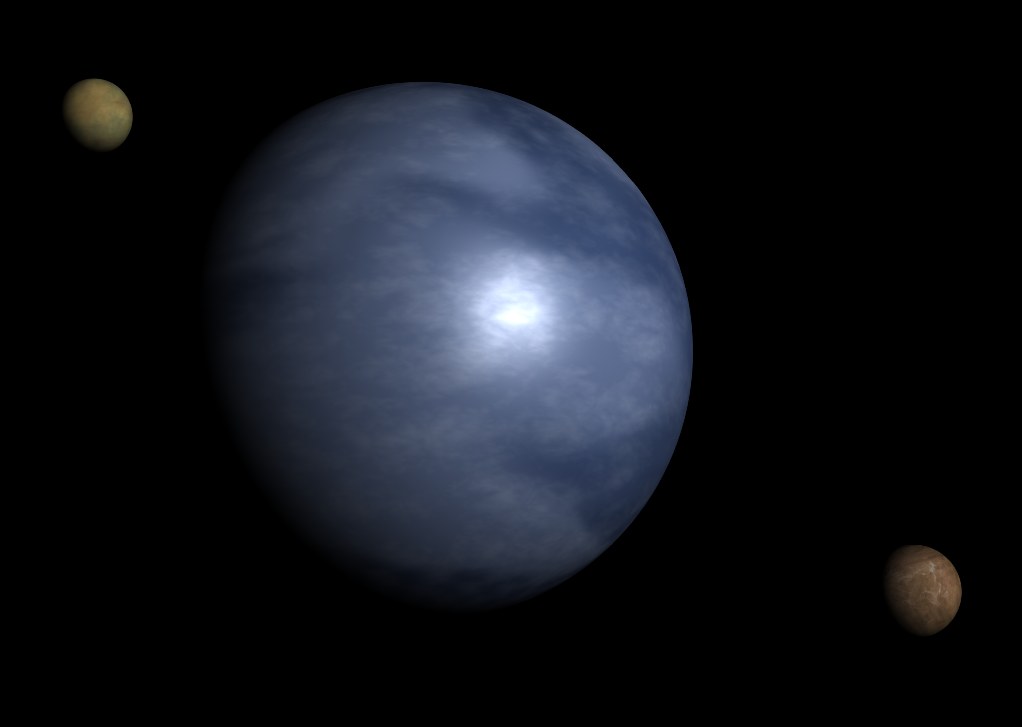 Example of an ocean world with two satellites